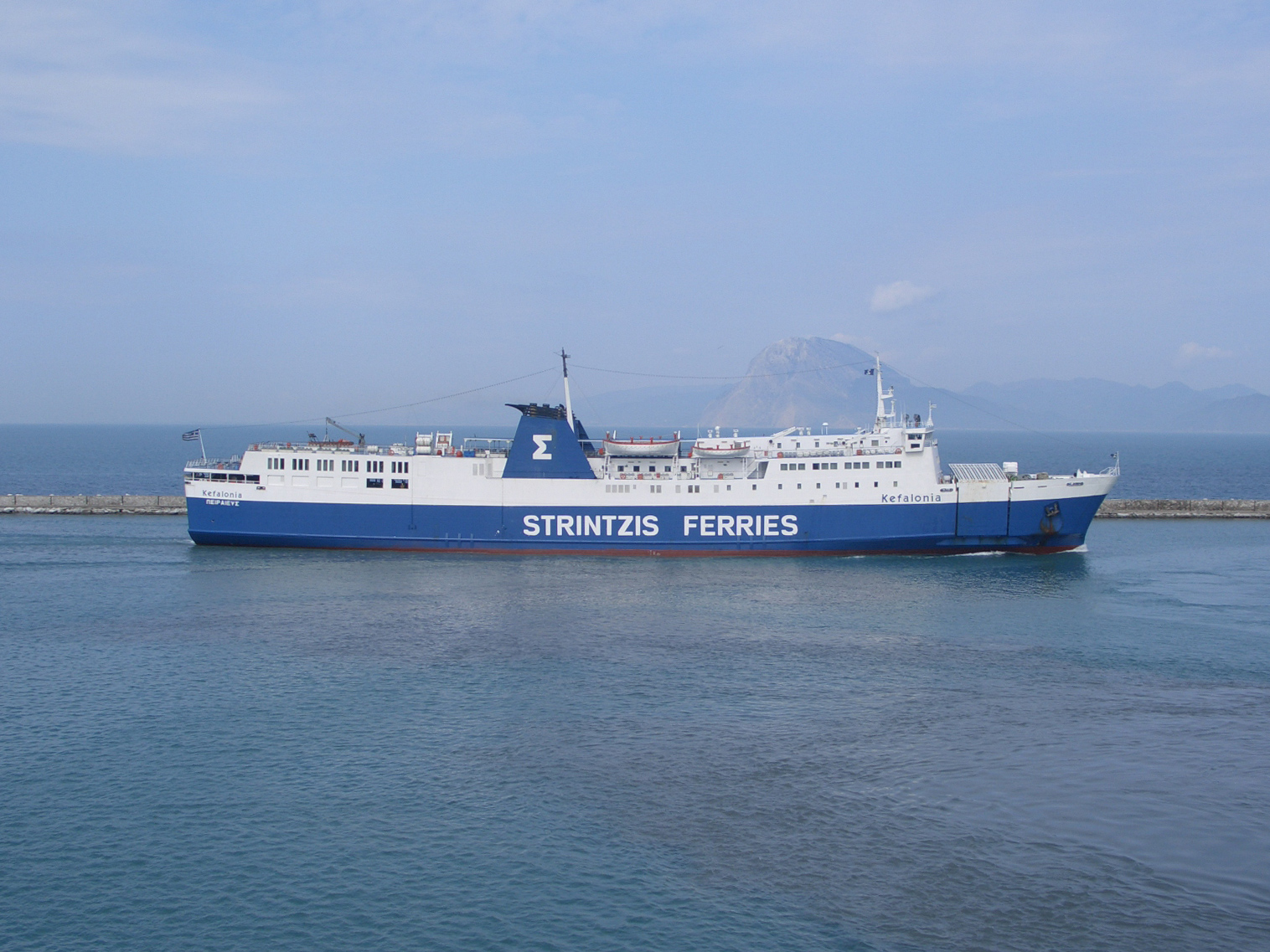 Strintzis Ferries Kefalonia arrives at Patras